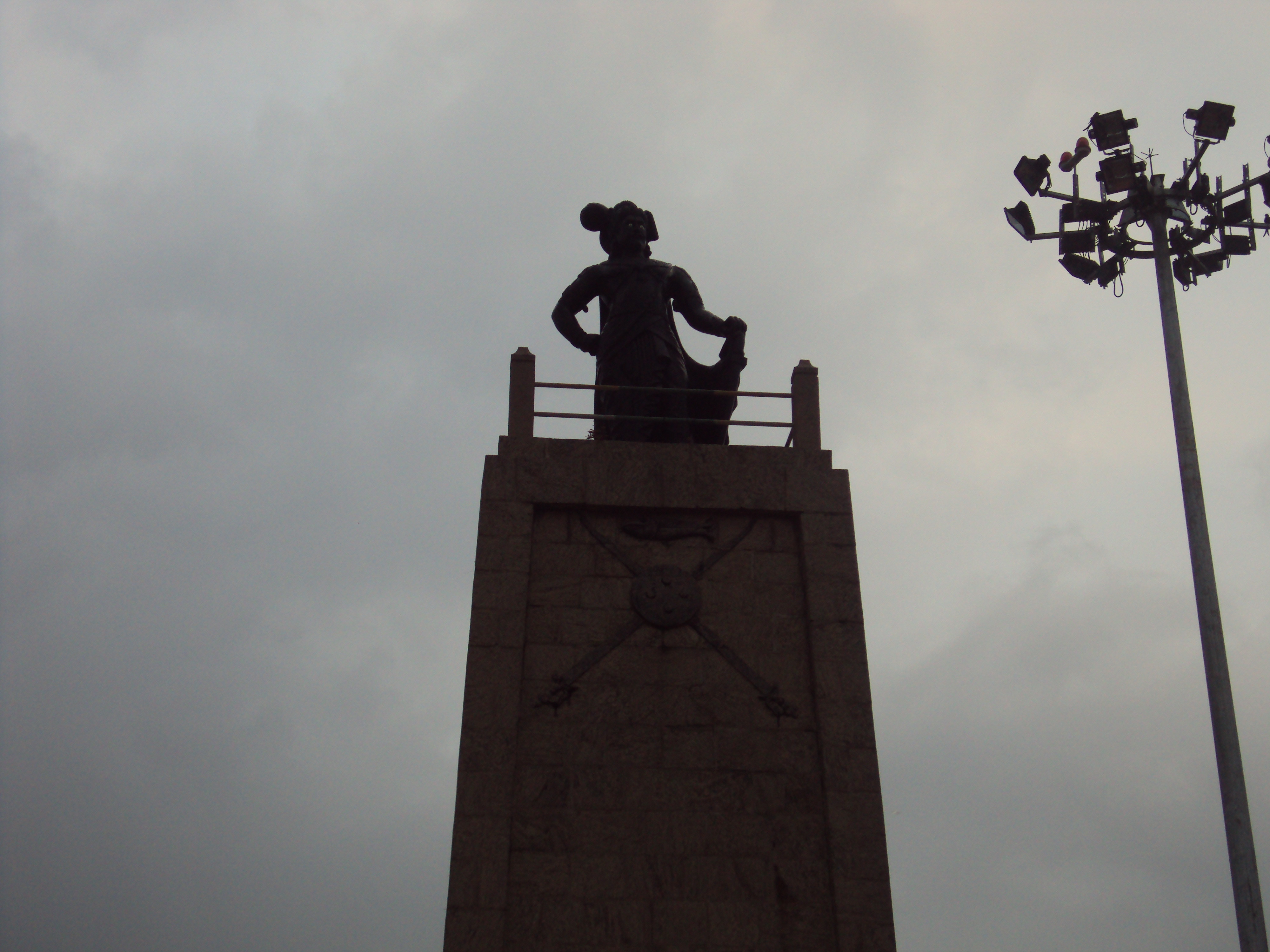 The image shows the Veerapandiya Kattabomman Memorial at Kayatharu near Tirunelveli, Tamil Nadu at the place where he was hanged by the British on October 16, 1799.